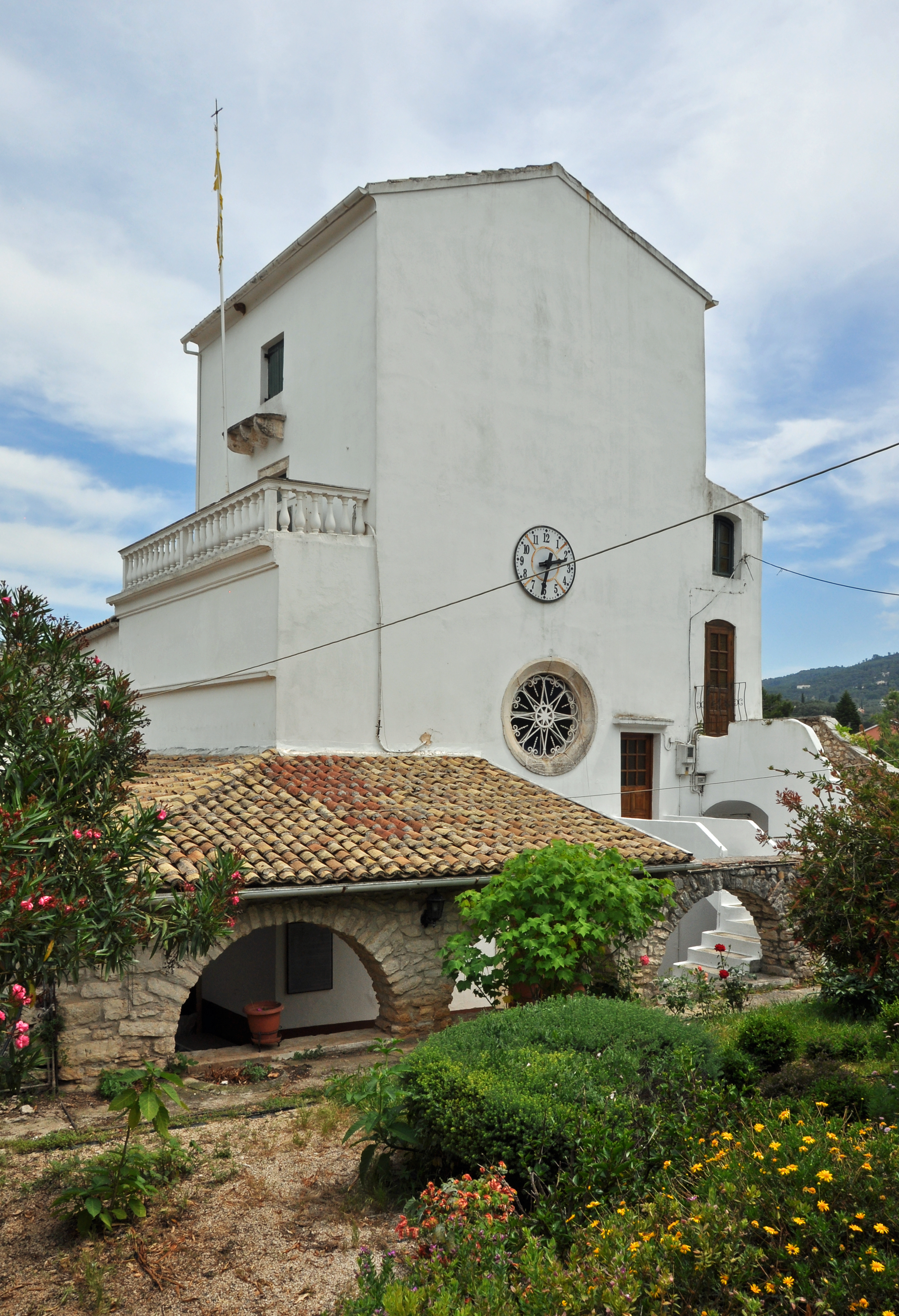 Kassiopi (Corfu island, Greece): Panagia Kassopitra monastery - the church